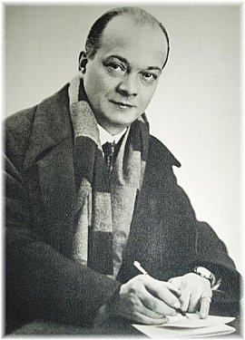 Portrait of Tristan Derème (1889-1941), French poet writer and politician.